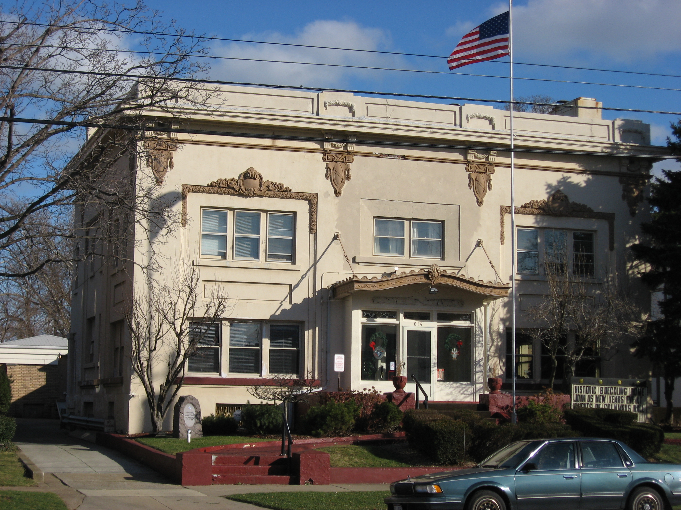 Front of the G.A. Boeckling House, located at 614 Columbus Avenue in Sandusky, Ohio, United States. Built in 1910 and since converted into a meeting hall for the Knights of Columbus, it is listed on the National Register of Historic Places.